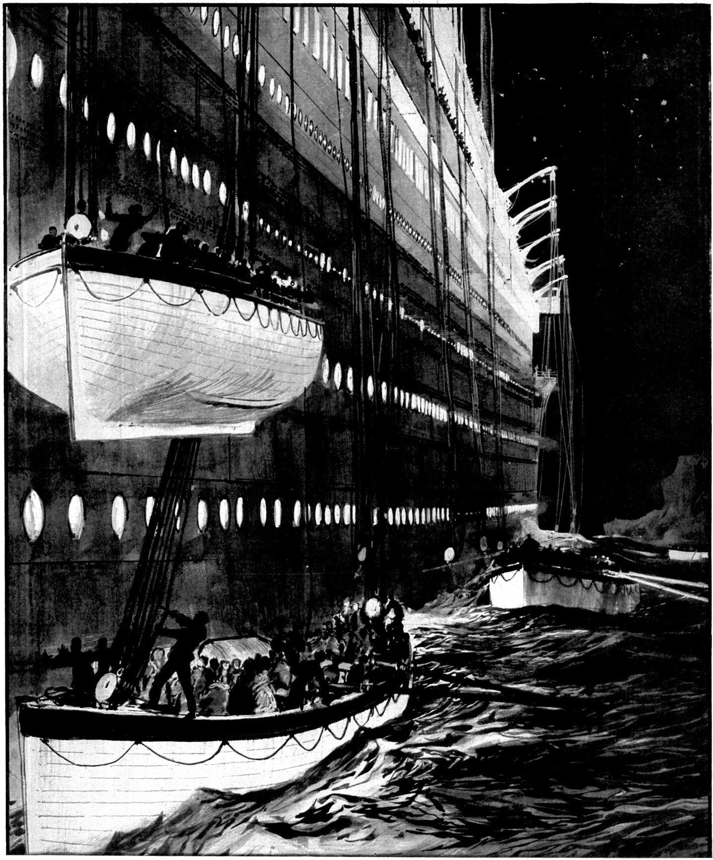 "Leaving the sinking liner"